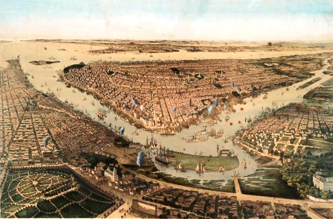 Bird's eye view of the City of New York, Brooklyn, Williamsburg, 1859. Courtesy of the New York Public Library.